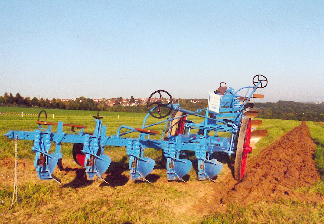 A steam plough to tilt (UK: "balance plough"), University of Hohenheim, Germany, constructed in 1921 by the German company Kemna. – This type of plough would have been hauled across a field on a wire rope by two steam traction engines (specifically, 'ploughing engines').